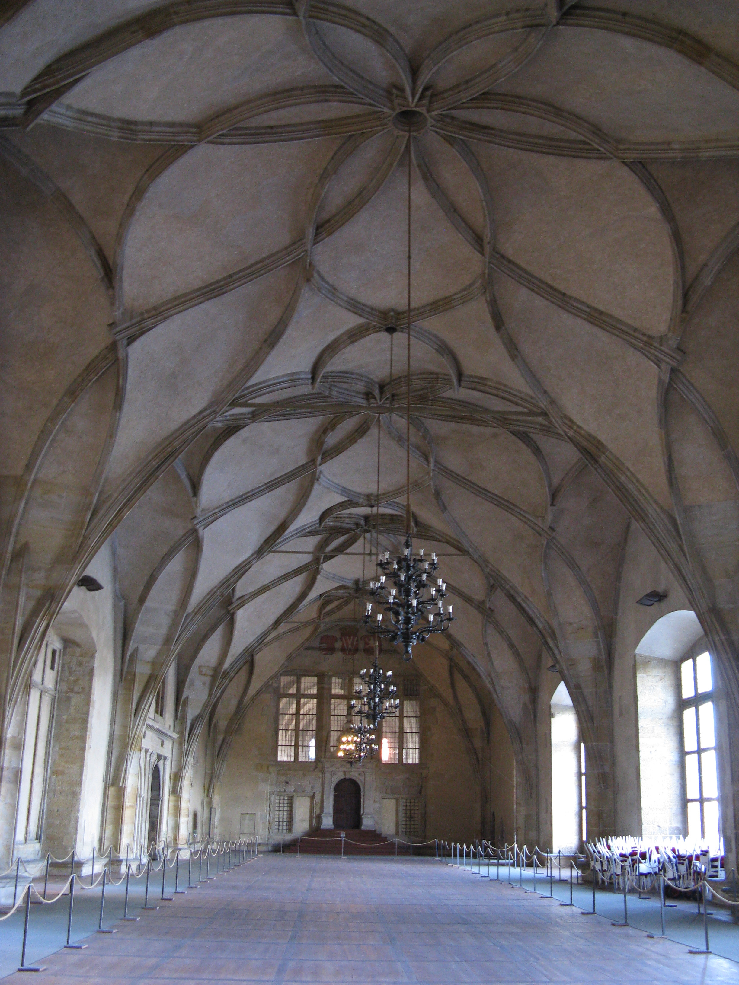 Vladislav Hall old Royal Palace at Prague castle.